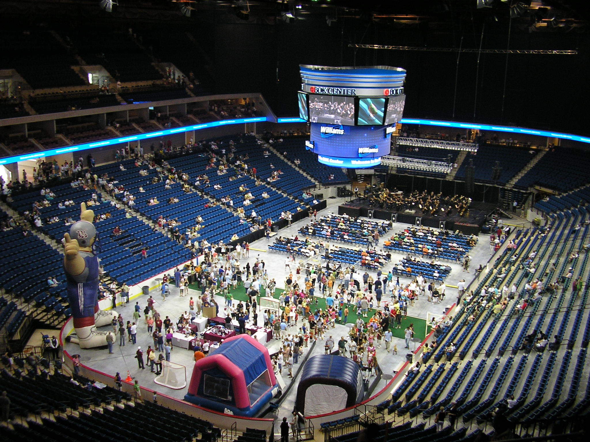 Inside the BOK Center in Tulsa Oklahoma on the August 30 open house.